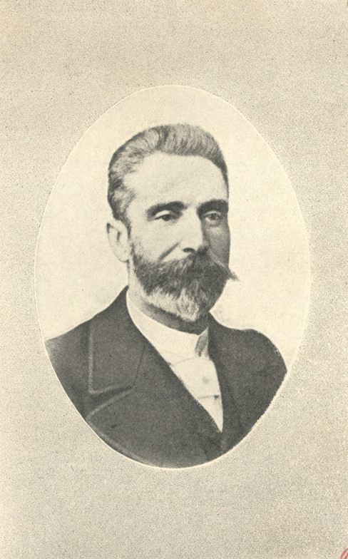 Photograph of Portuguese Republican politician Basílio Teles, included in the Album Republicano, published in 1908.